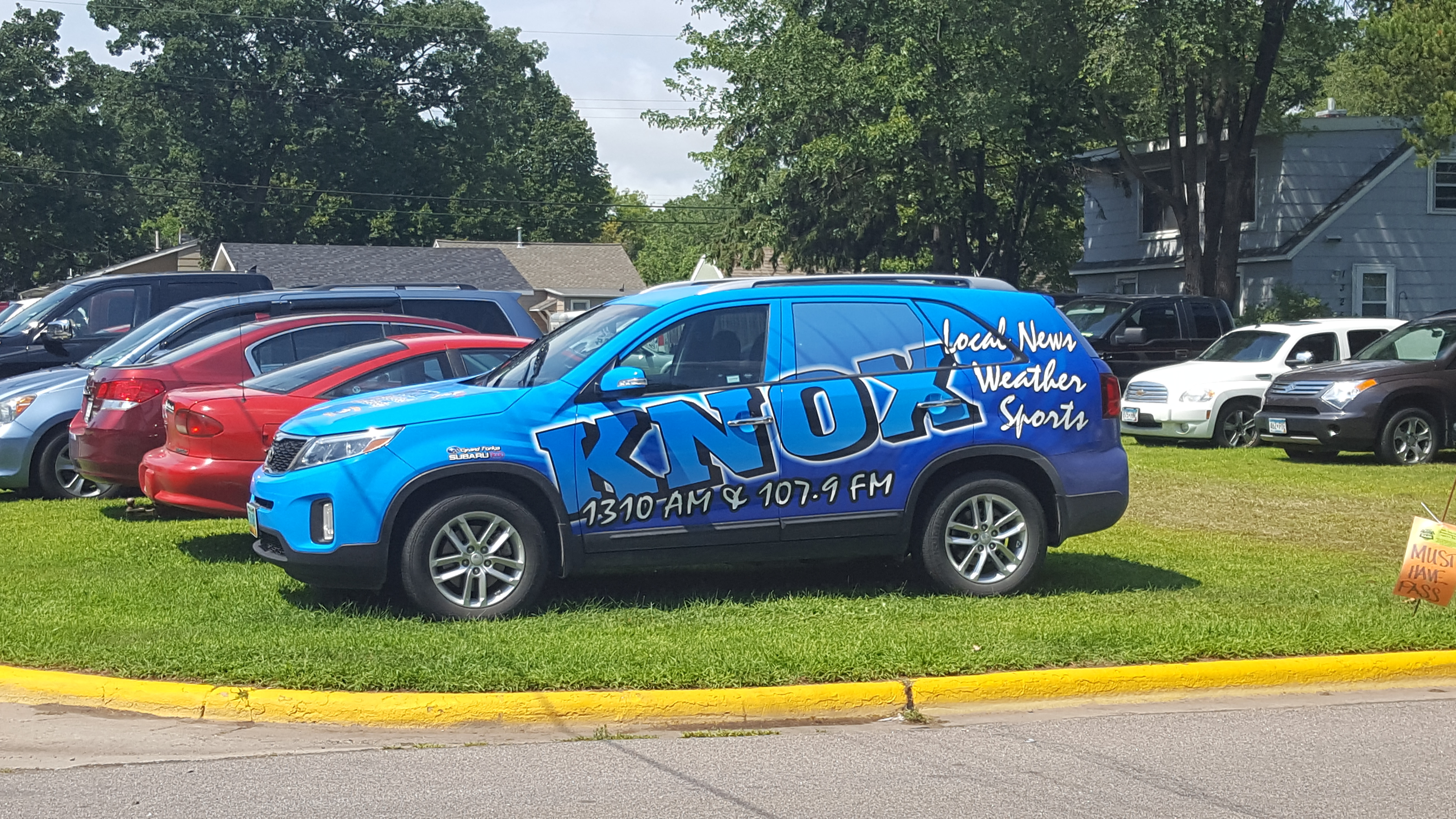 The station vehicle for KNOX-AM 1310. This was spotted in Sauk Rapids, Minnesota at the Benton County Fair.